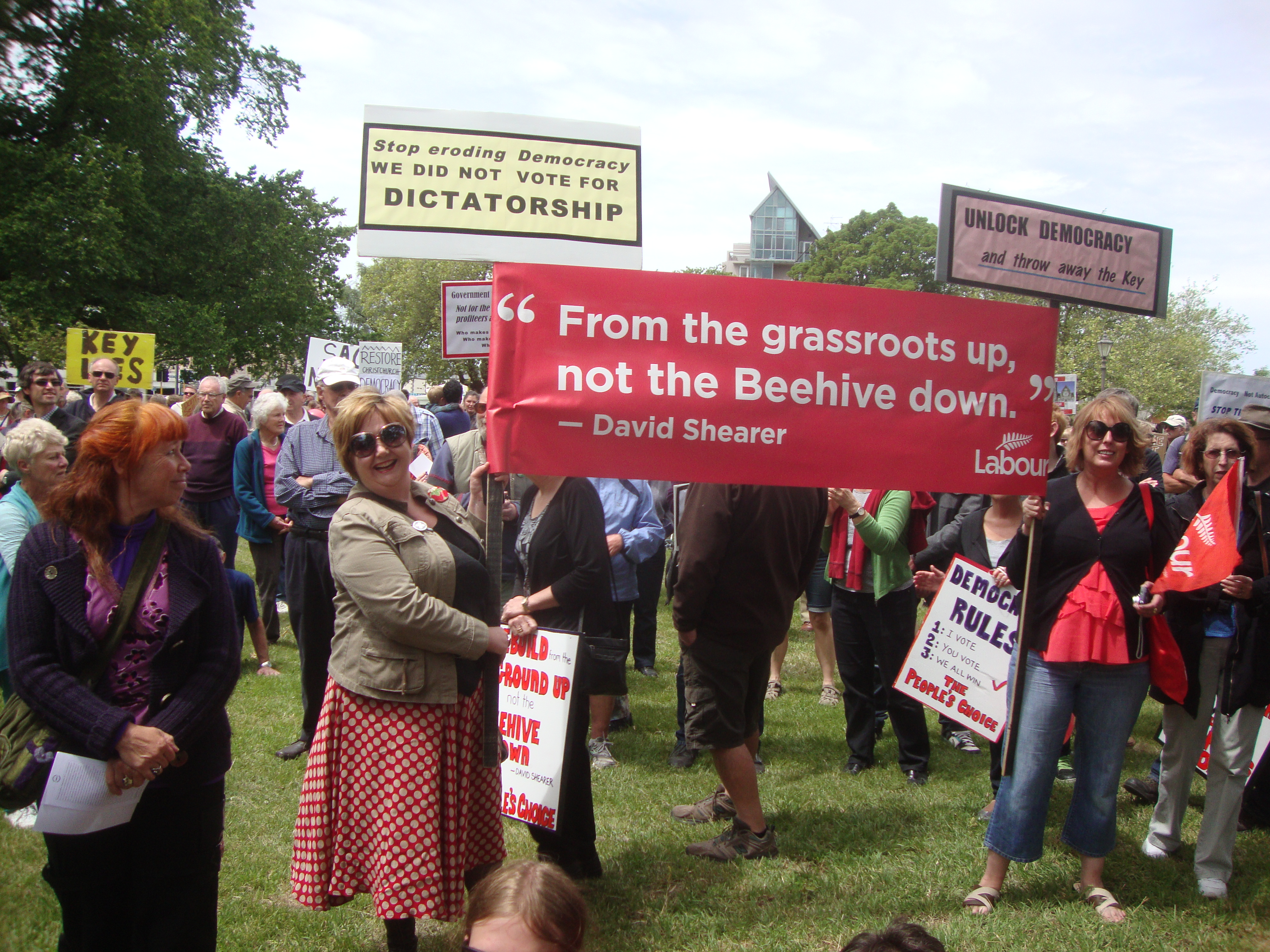 Protest against loss of democracy in Christchurch on 1 December 2012.